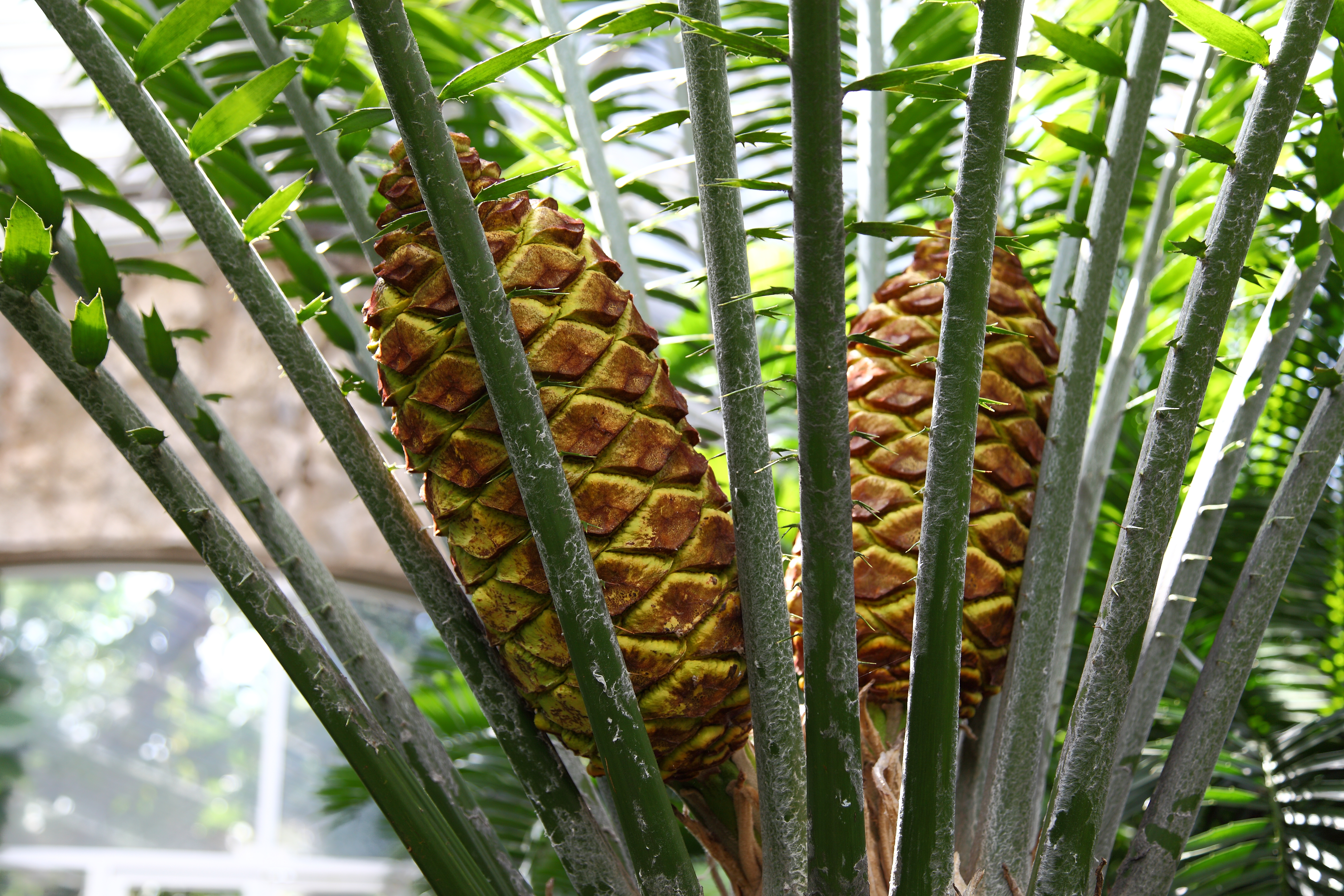 Encephalartos laurentianus, Botanic Garden, Munich, Germany